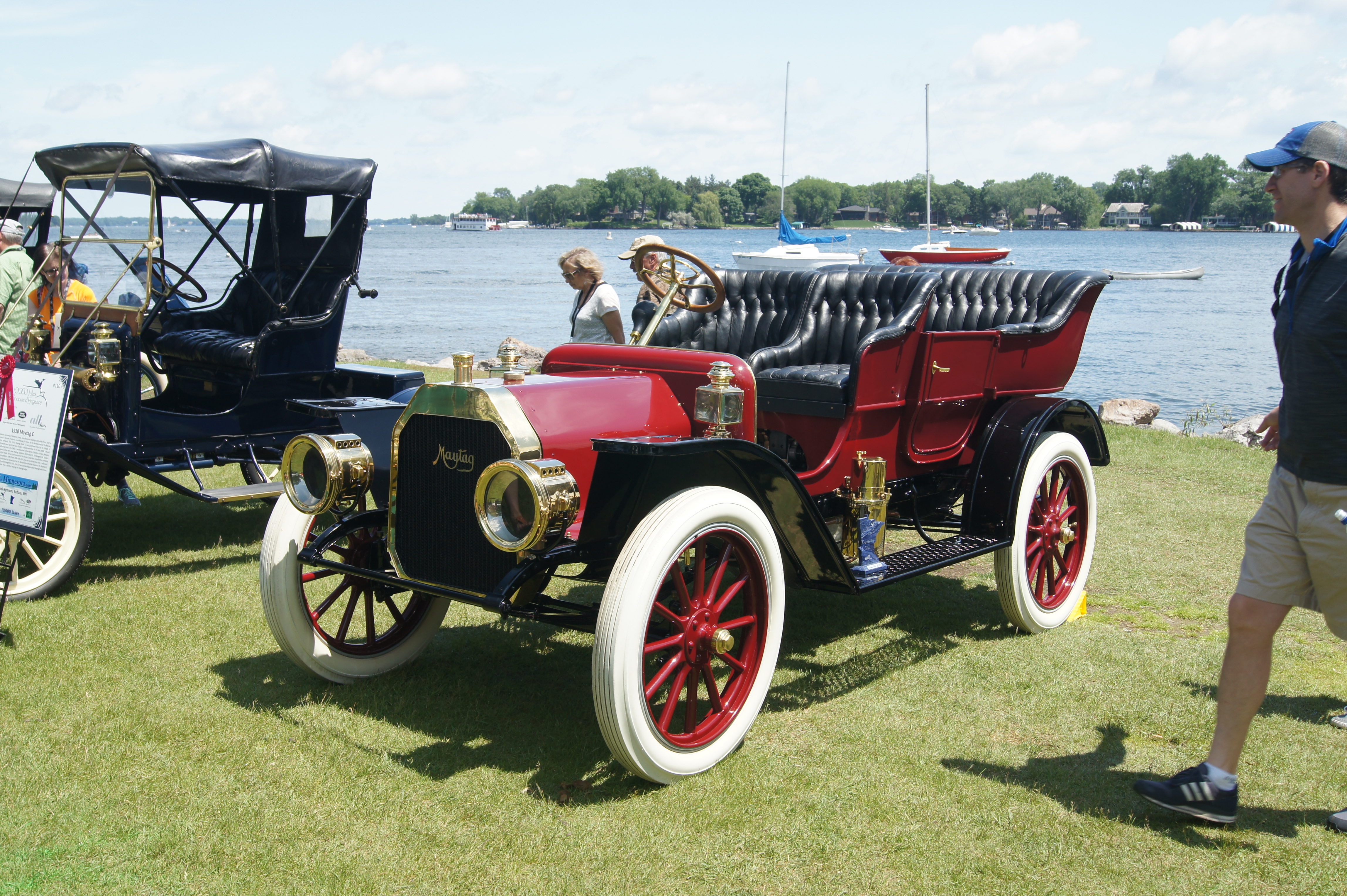 1910 Maytag C Beautiful weather, excellent location and amazing cars & boats made the 10,000 Lakes Concours d'Elegance 2015 a great day for the participants and spectators. The organizers, volunteers and participants deserve a standing ovation.